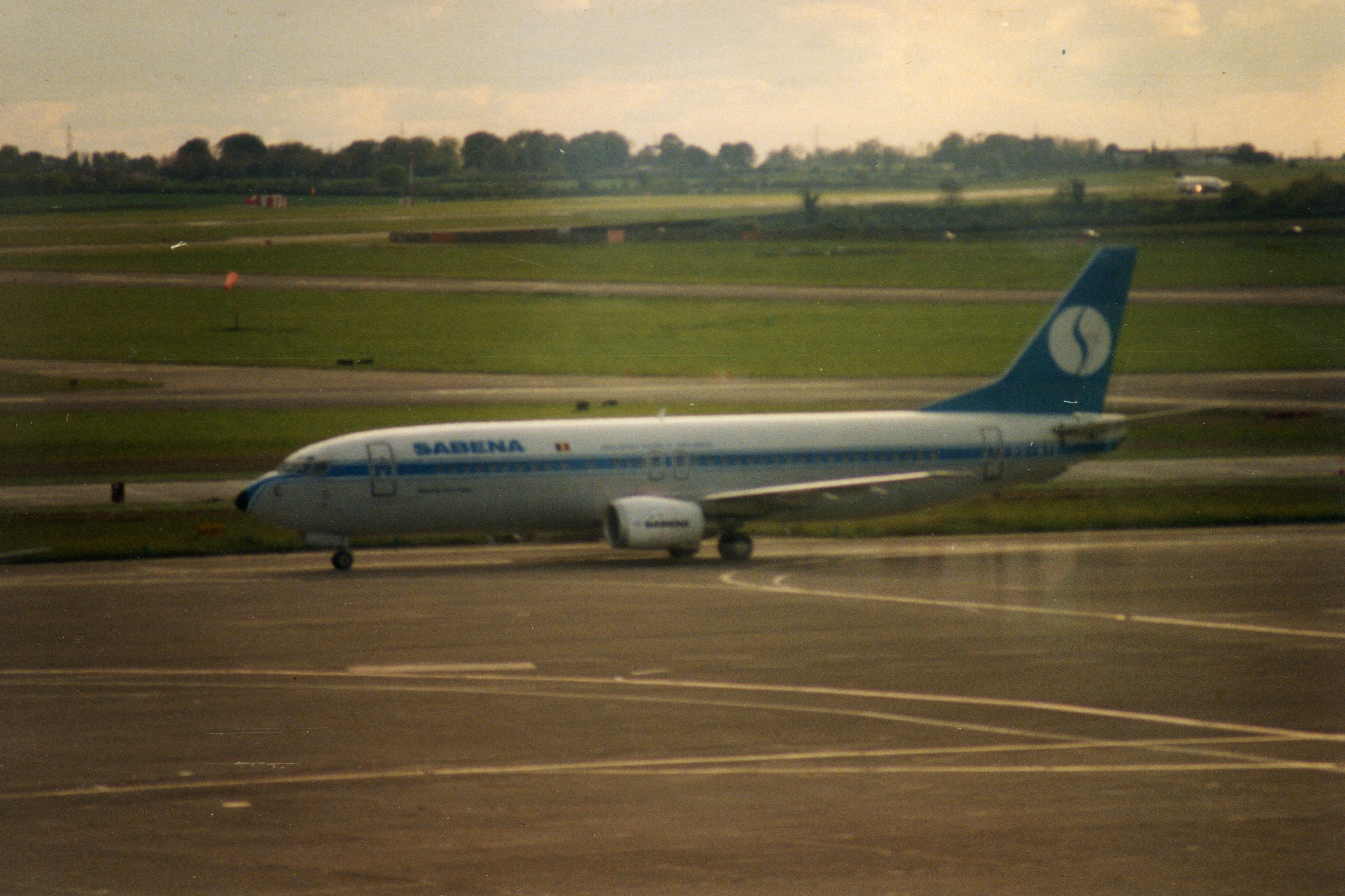 Sabena Boeing 737 aircraft, Dublin Airport, Dublin, Republic of Ireland, May 1995